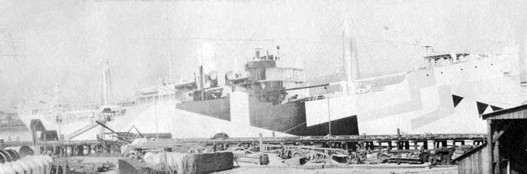 S.S. West Bridge (American freighter, 1918) Probably photographed upon completion in May 1918. This ship was in commission as USS West Bridge (ID # 2888) from May 1918 to December 1919. U.S. Naval Historical Center Photograph.